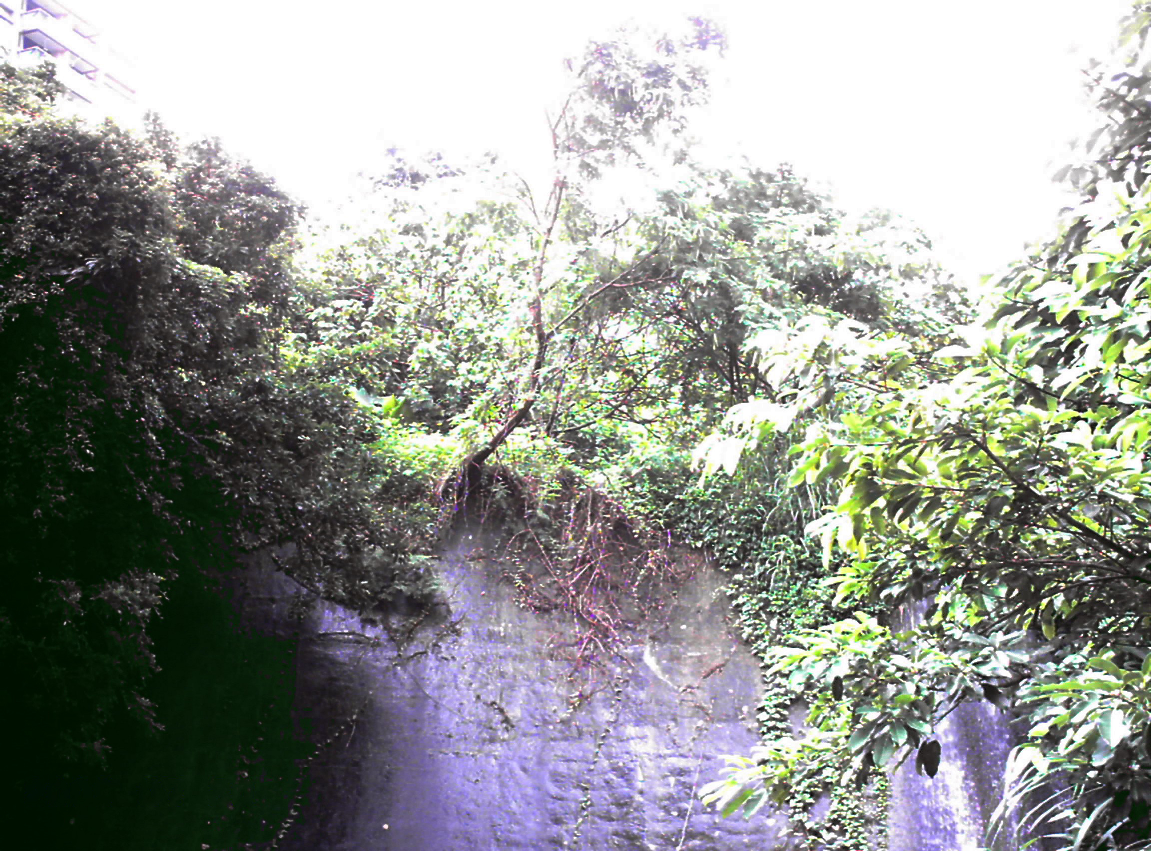 far view Water overflow to form a little waterfall, Lower Reservoir, Siu Sai Wu, Beacon Hill, Kowloon Tong, Hong Kong 中文（香港）: 香港，九龍塘，筆架山，小西湖，下遊蓄水池的水滿溢出堤壩形成小瀑布。(遠眺)